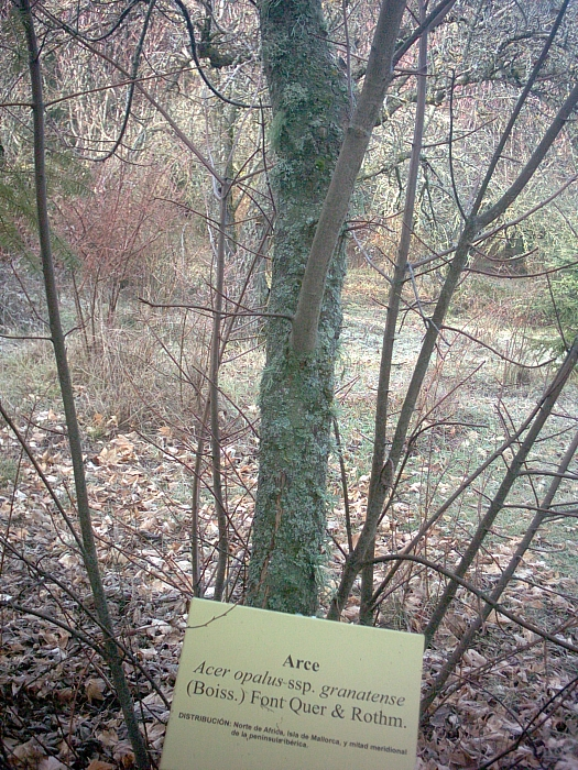 A work release by Francisco Javier Martín López, Acer opalus ssp. granatense, in Arboretum "La Alfaguara" , Sierra de Huétor, Alfacar, province of Granada (Spain) 2006, January 7. A free donation to Wikipedia.